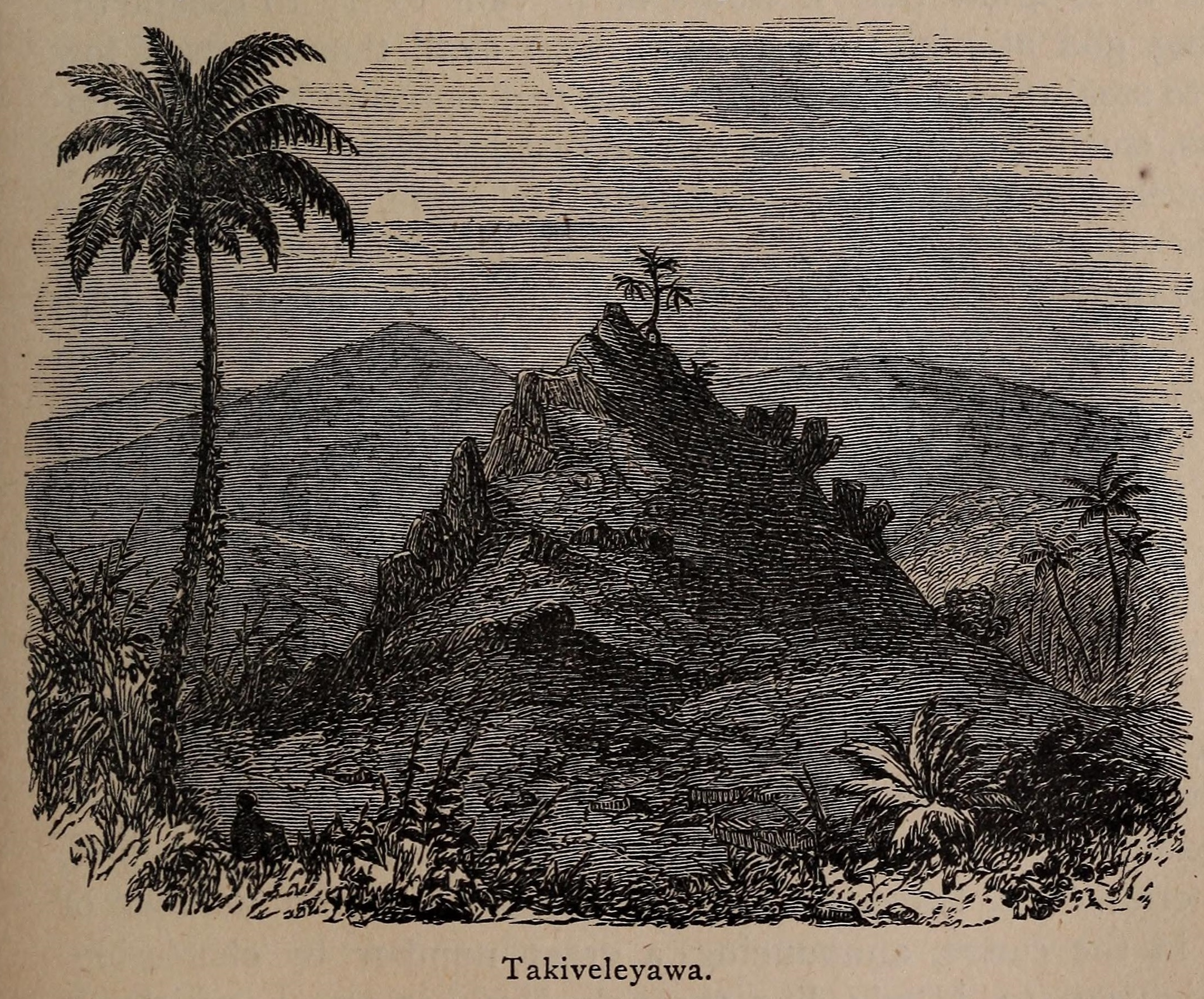 Takiveleyawa, a hill which figures in Fijian mythology relating to the underworld.